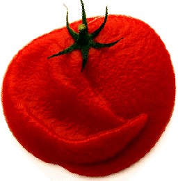 Some ketchup on a plate, looking like a tomato - no trademark of any ketchup manufacturer displayed